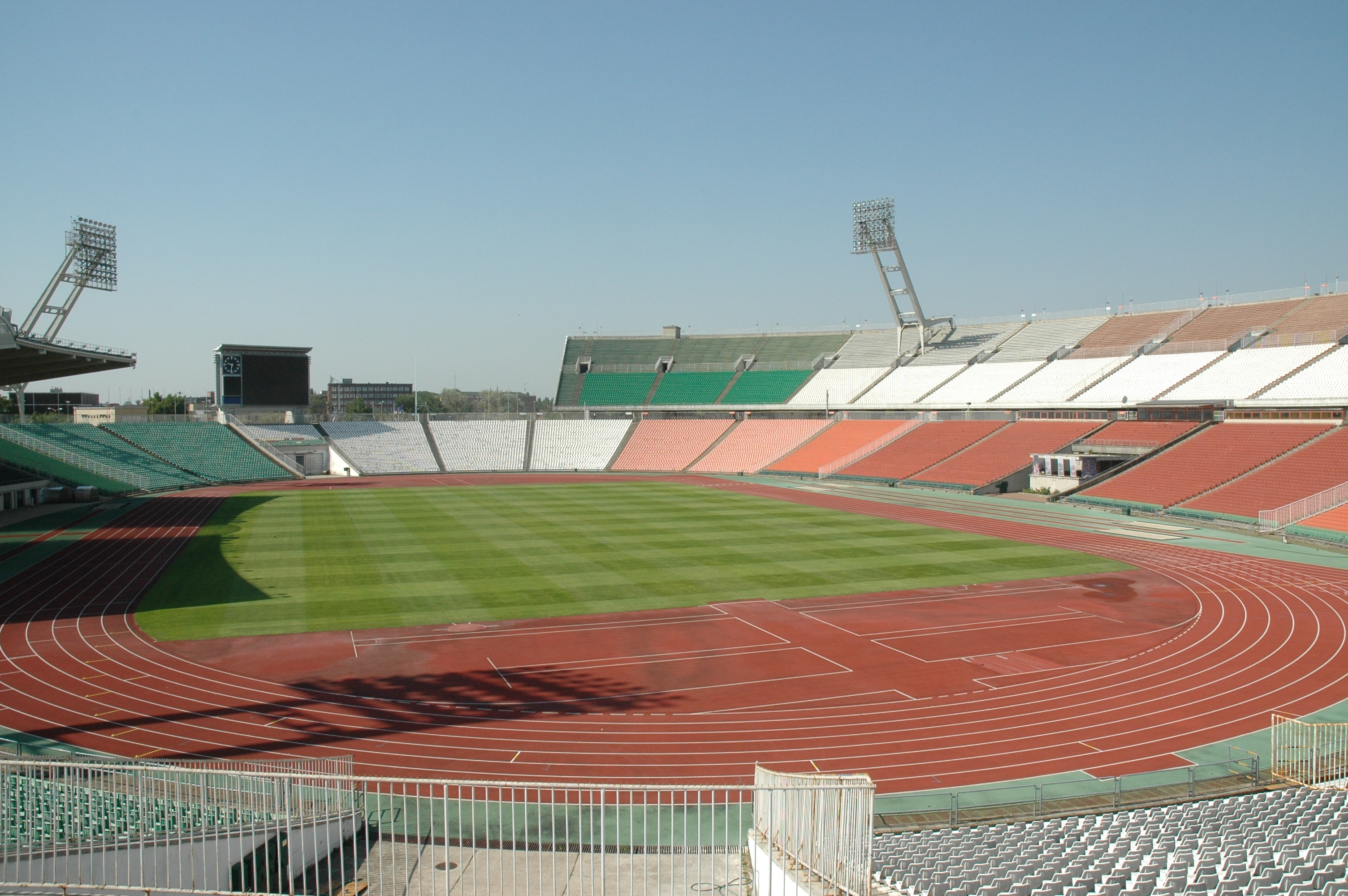 Stadium Puskás Ferenc (Budapest, Hungary)